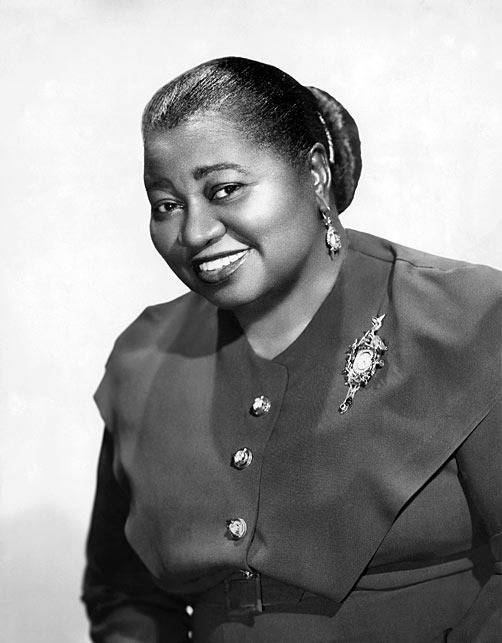 Promotional photograph of actor Hattie McDaniel (1939)